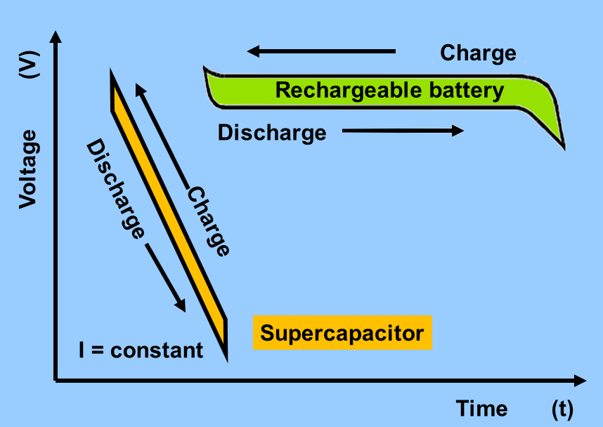 Different charge /discharge behavior of supercapacitors and rechargeable batteries